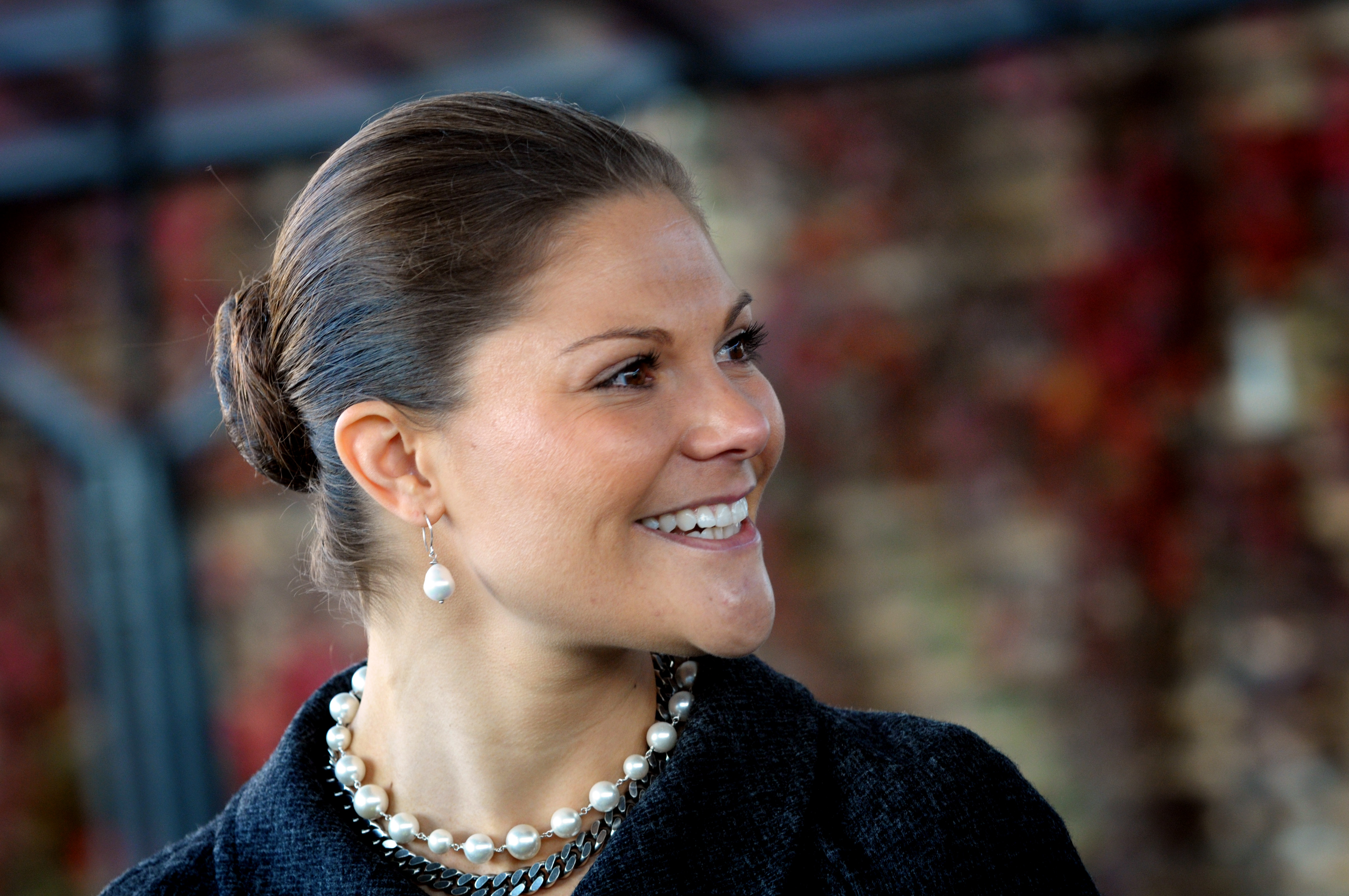 Her Royal Highness the Crown Princess of Sweden at Baltic Development Forum on 5 October 2009.